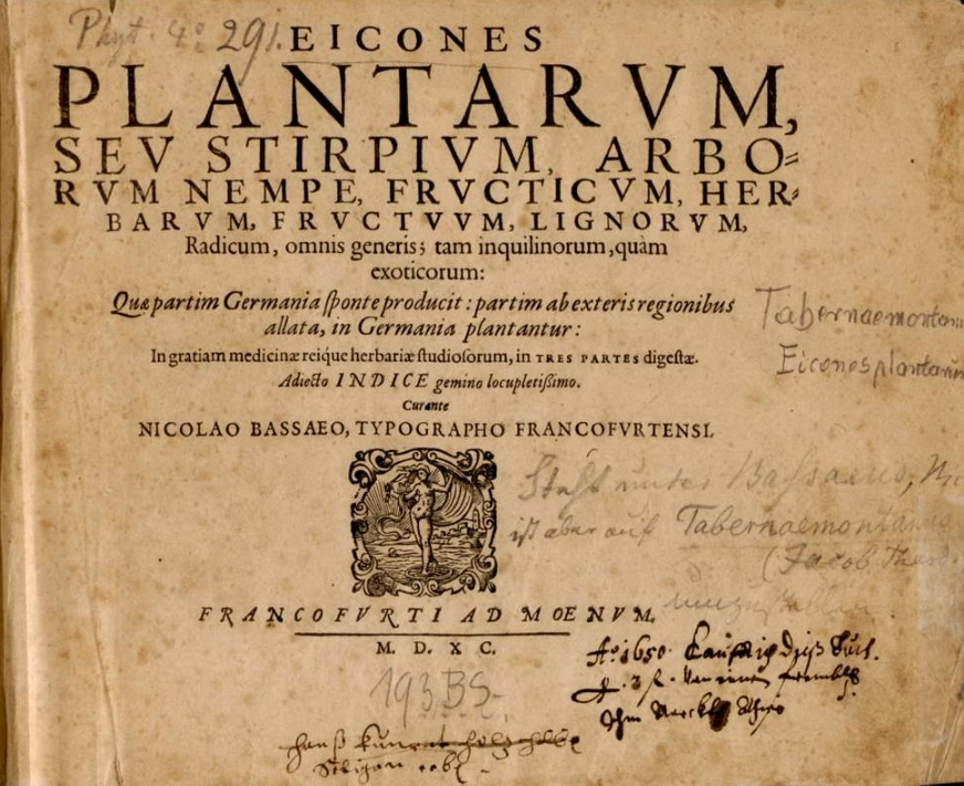 Tabernaemontanus, Eicones plantarum title page